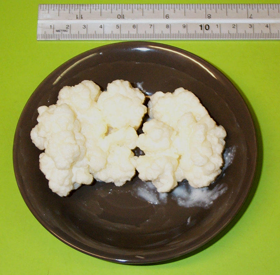 Photograph - 90 grams of kefir grains in a dish. Kefir grains have been sieved from mature kefir before being added to fresh milk.